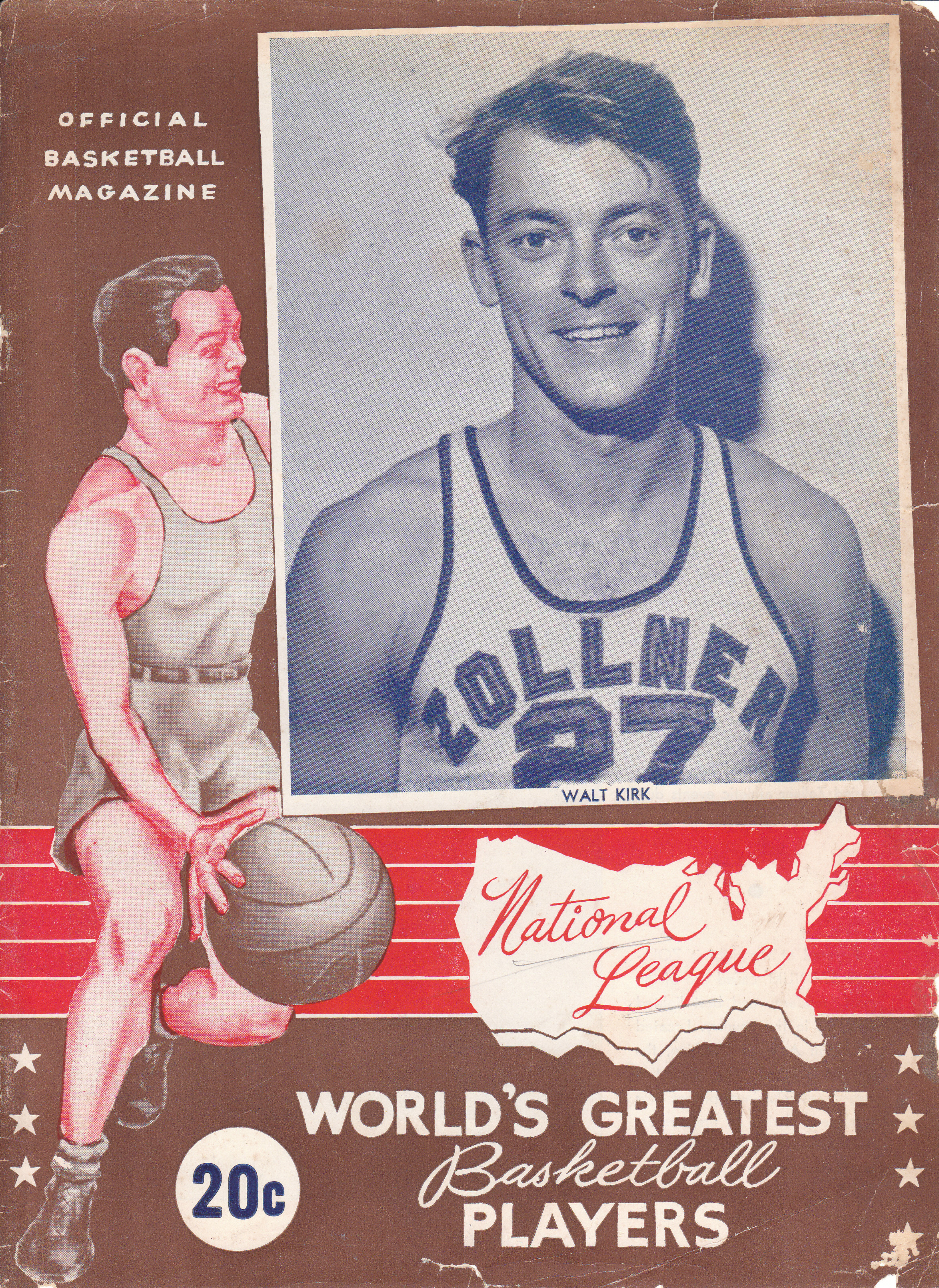 Photo of 1948 Ft. Wayne Zollner Pistons Basketball Program featuring player, Walt Kirk